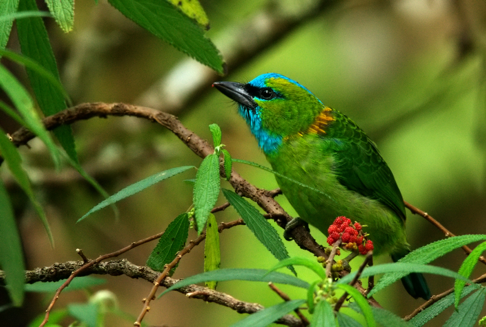 Golden-naped barbet from Mt. Kinabalu, Borneo. Malaysia